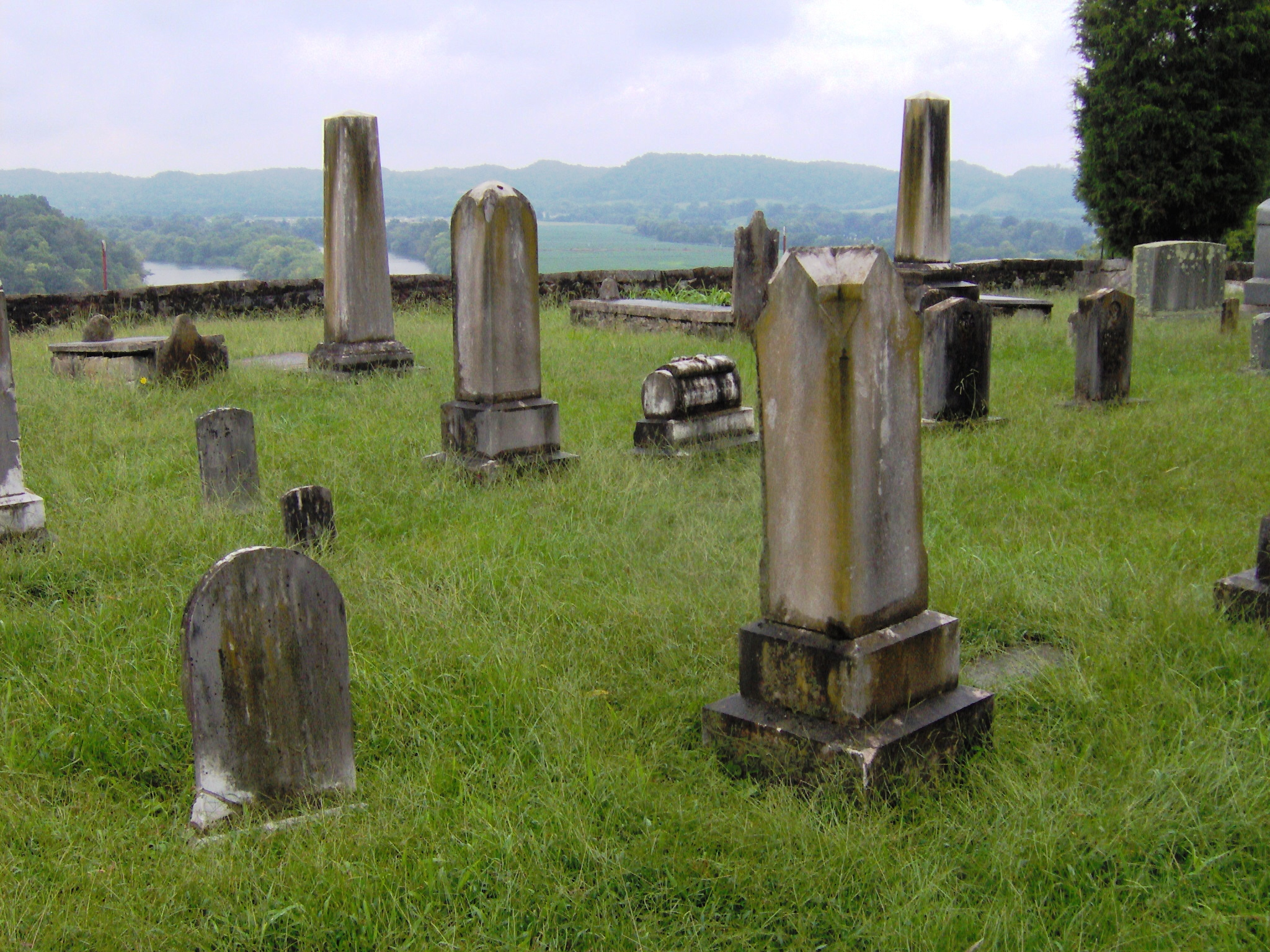 Brabson family graves at the Brabson's Ferry Plantation cemetery near the U.S. city of Sevierville, Tennessee. The two obelisks mark the graves of John Brabson and Thomas Brabson. The French Broad River is below.